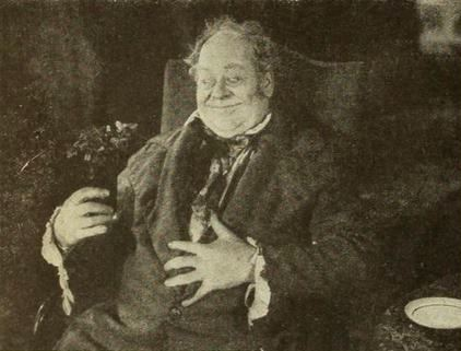 Still from the American film The Prodigal Judge (1922) with Macklyn Arbuckle, on page 58 of the April 1922 Photoplay.